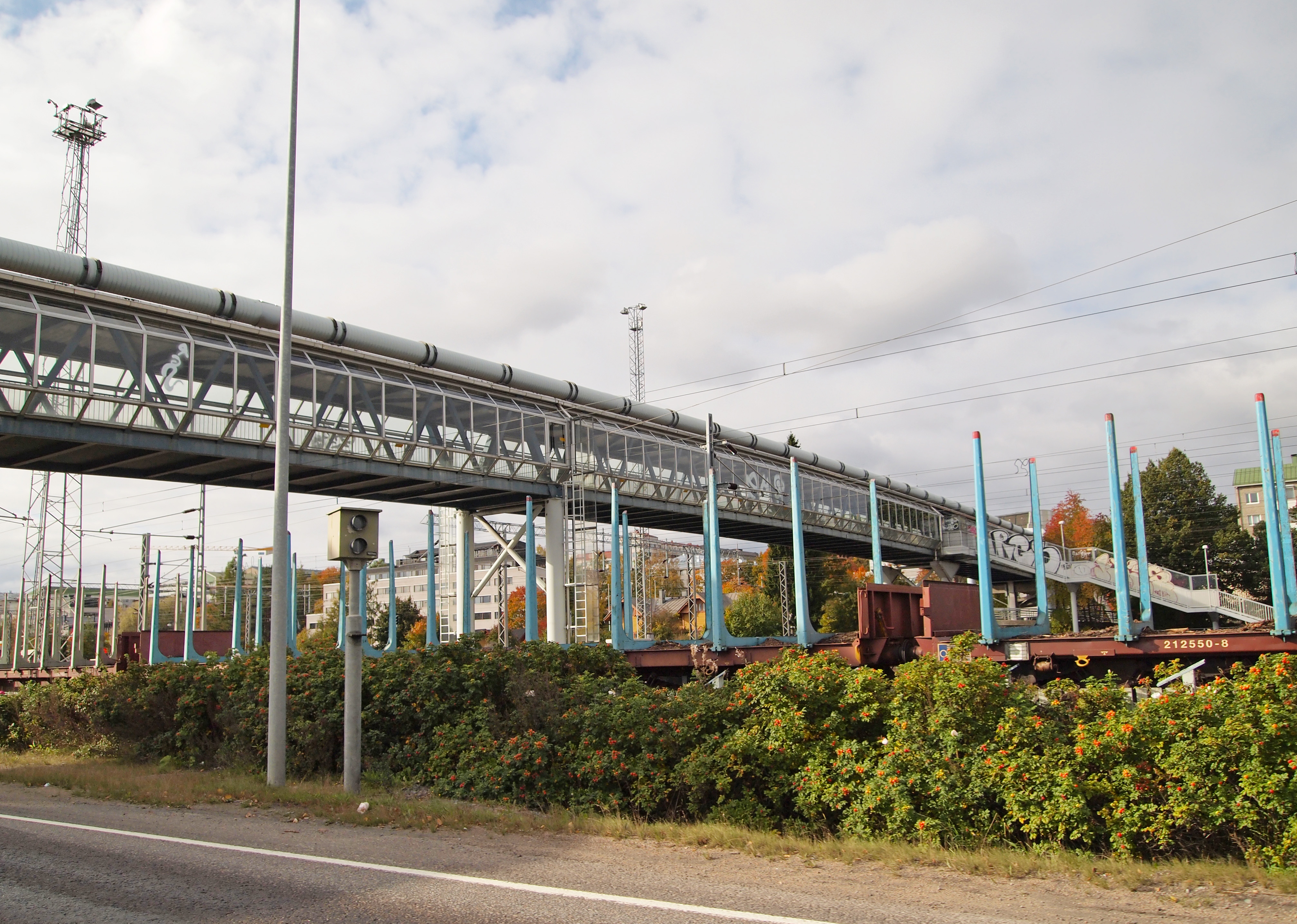 Foot bridge over the Rantaväylä road (mainroad 9/E63, 18, 23) in Jyväskylä, Finland. This photograph was taken with an Olympus E-PL1